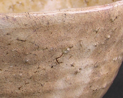 Stone bursts on Hagi Ido chawan